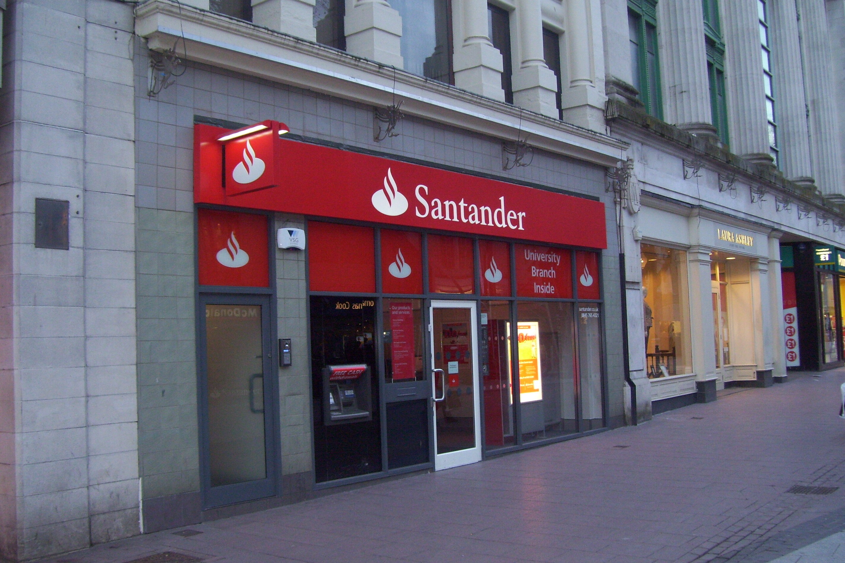 Another new Santander bank